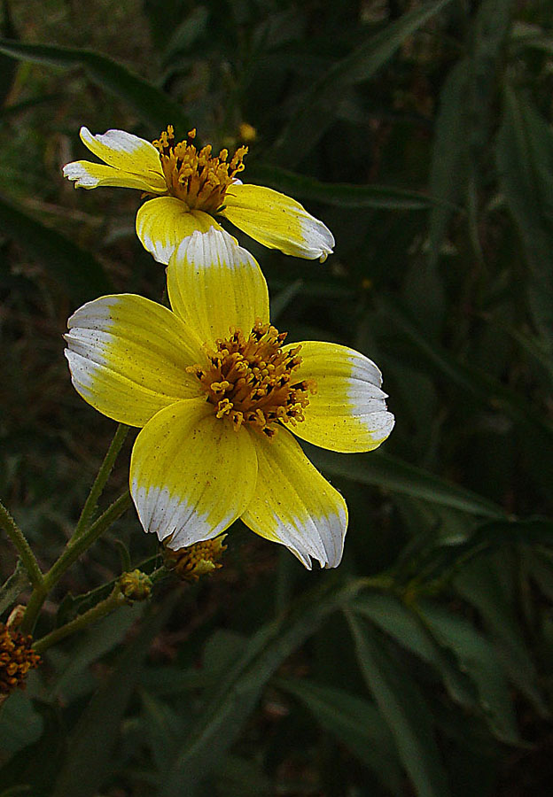 Known as Arizona Beggarticks, this is a widespread weed, and has naturalized in parts of South America. Photo from central Chile.